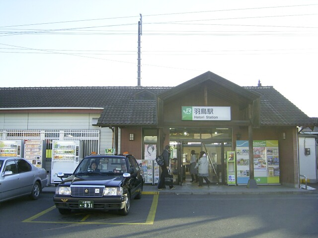 Hatori Station, Omitama, Ibaraki, Japan